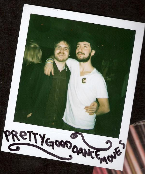 This is a picture we took in Chicago in 2003